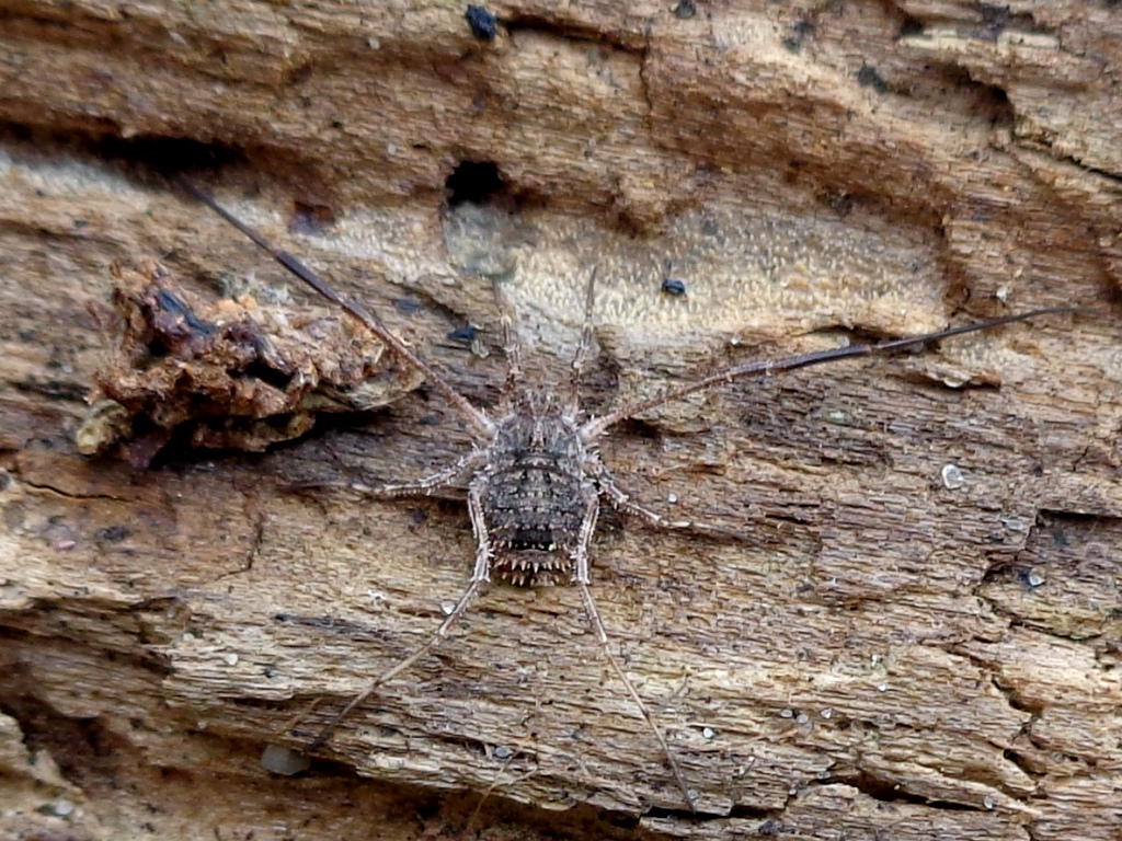 Lacinius horridus. Found Bērzi village near Bauska city, Latvia